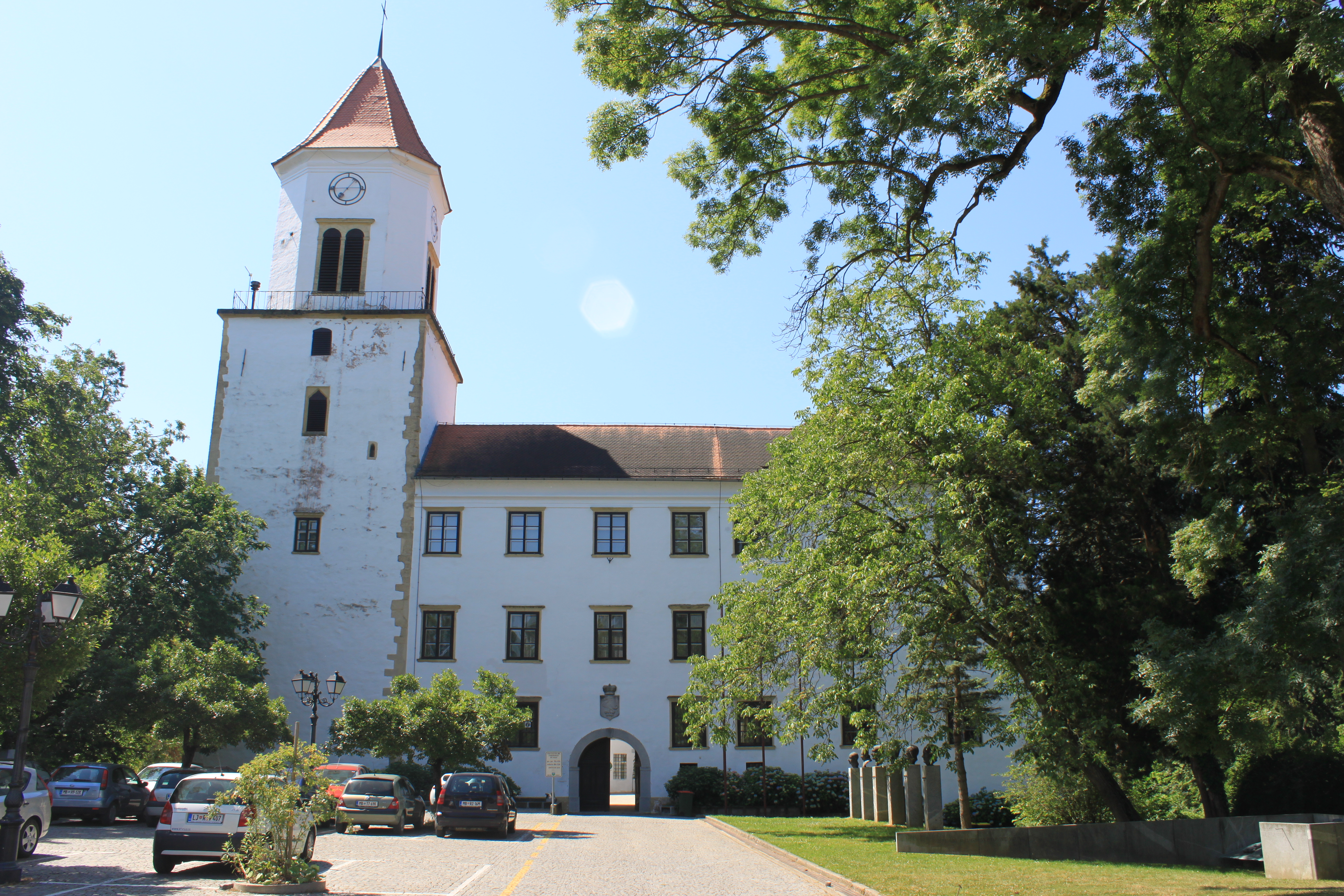 Ormož (Friedau), Slovenia; Lower Styria; Friedau Castle